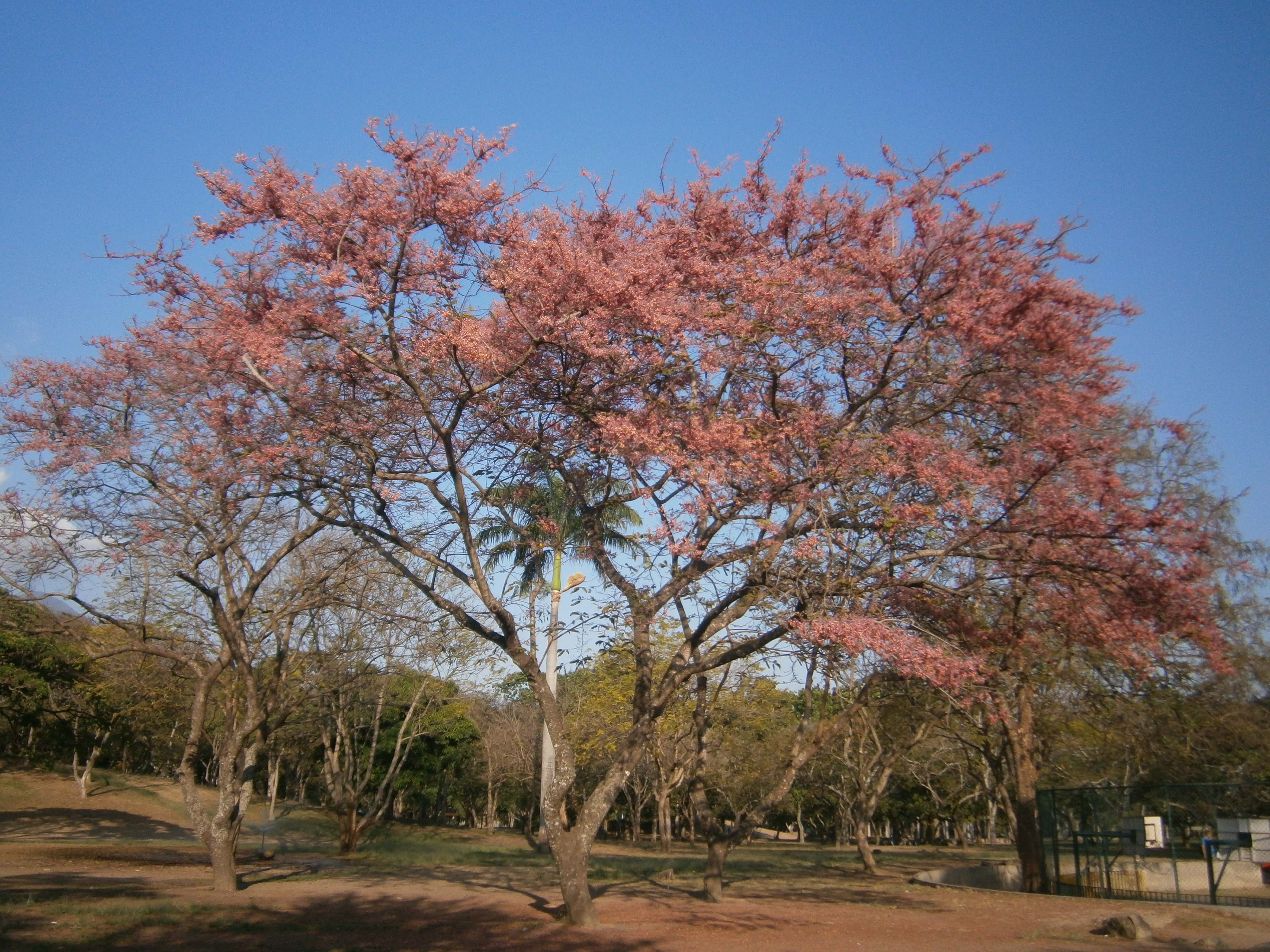 Cassia grandis tree